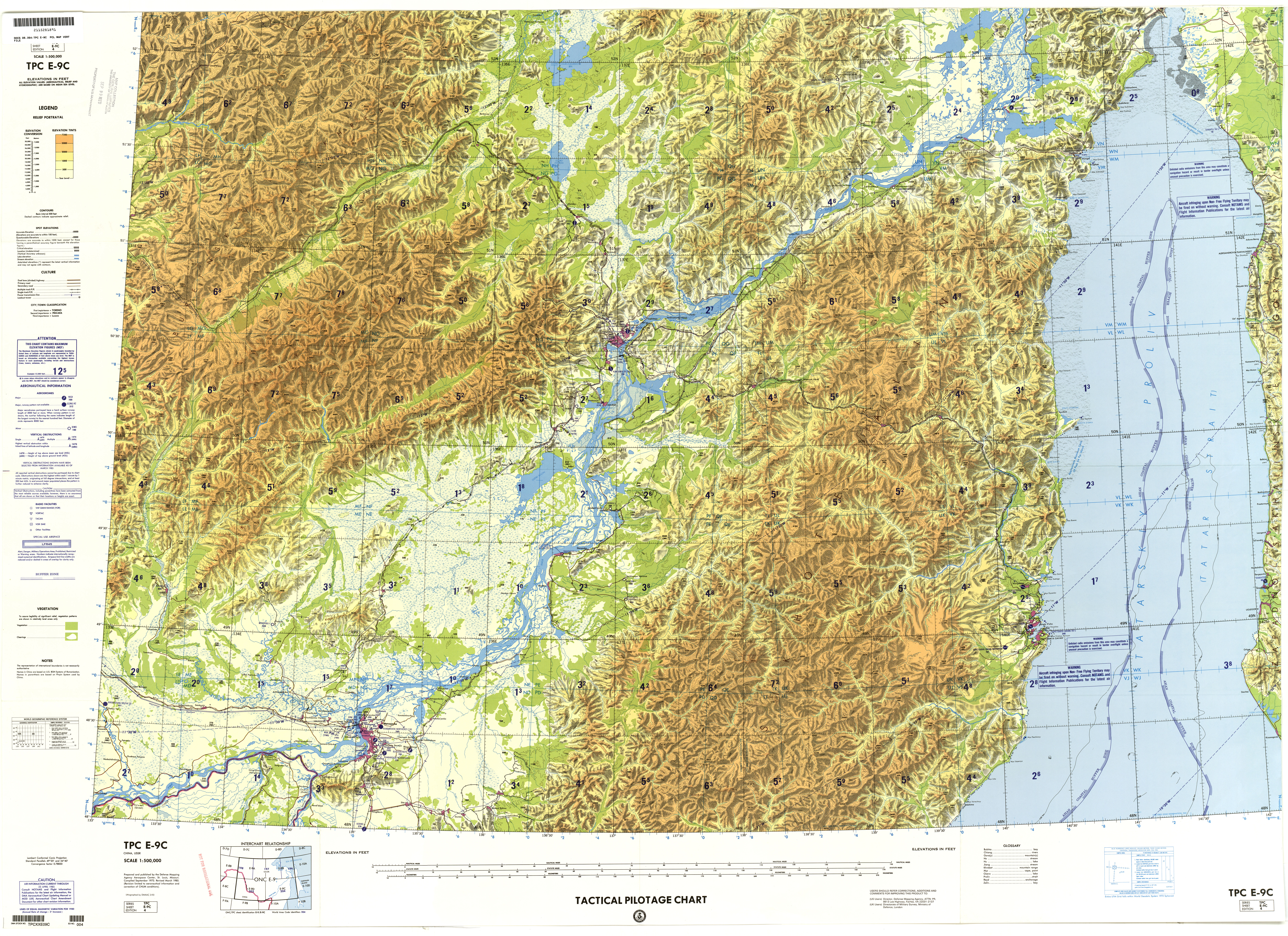 Tactical Pilotage Chart Series - World 1:500,000 Scale